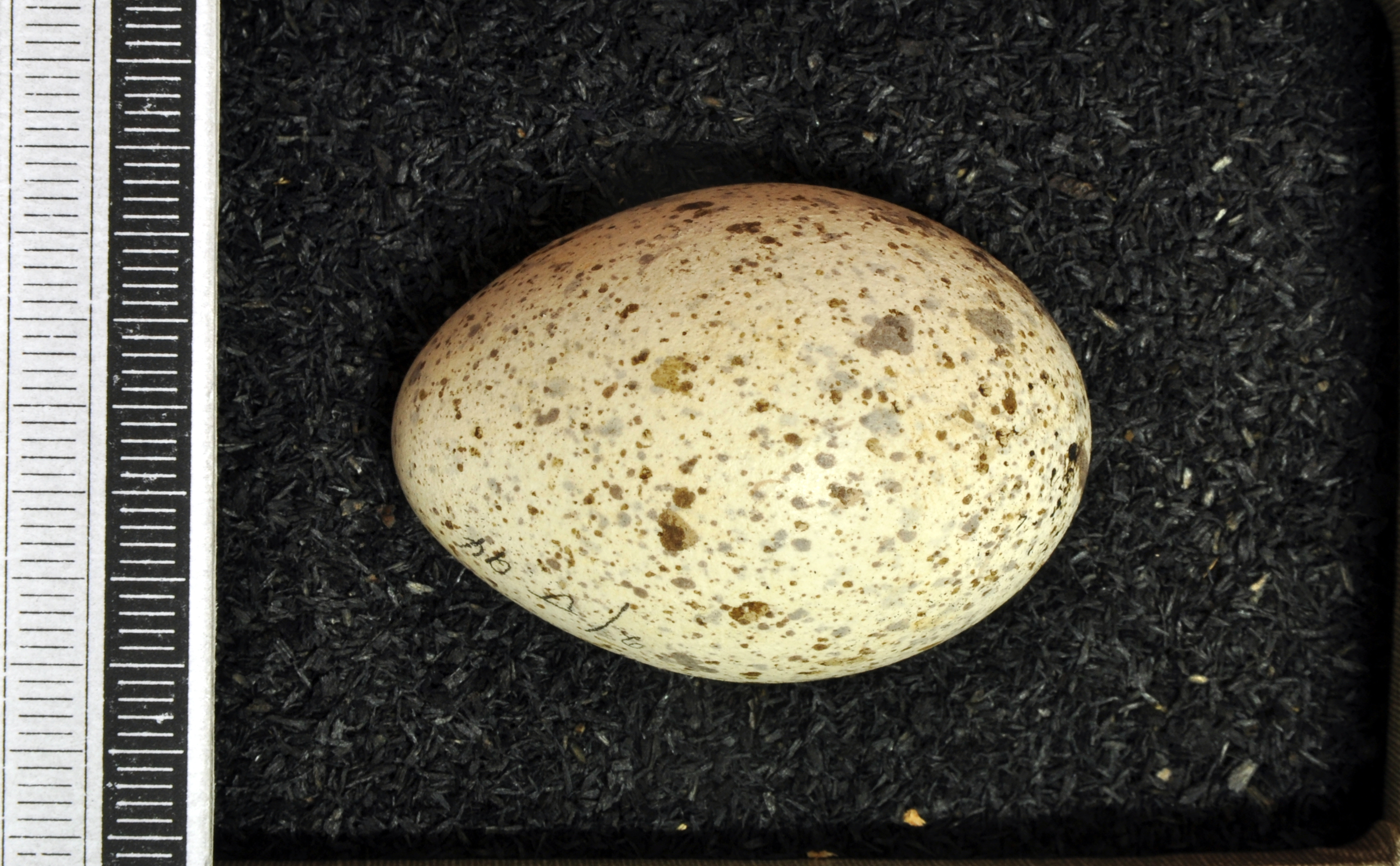 Red-billed chough Pyrrhocorax pyrrhocorax , egg, Coll. Museum Wiesbaden